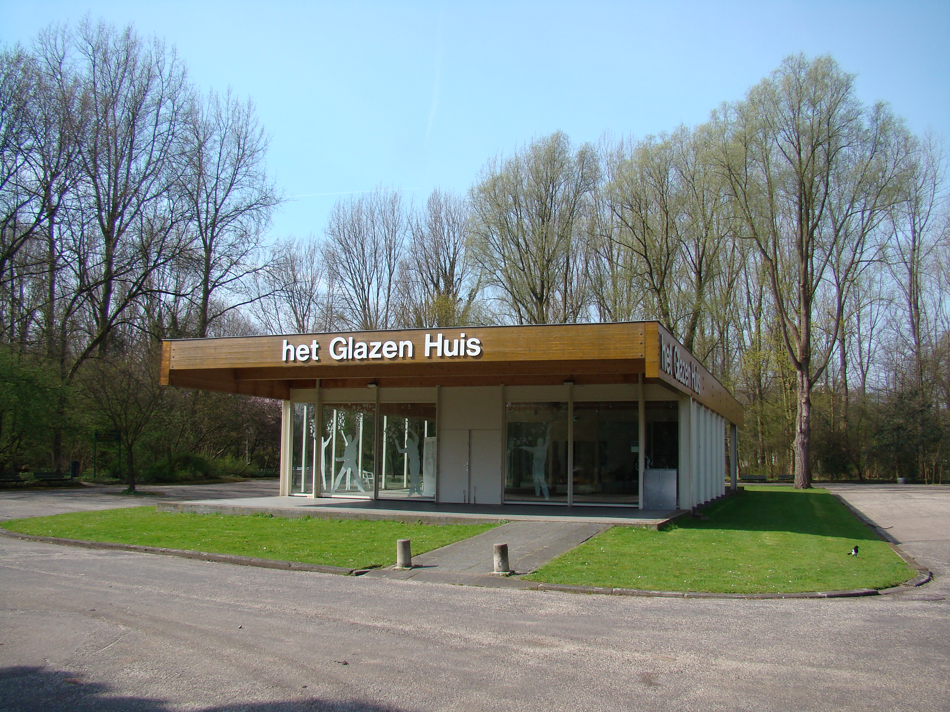 Impression of the Amstelpark at Amsterdam in Spring